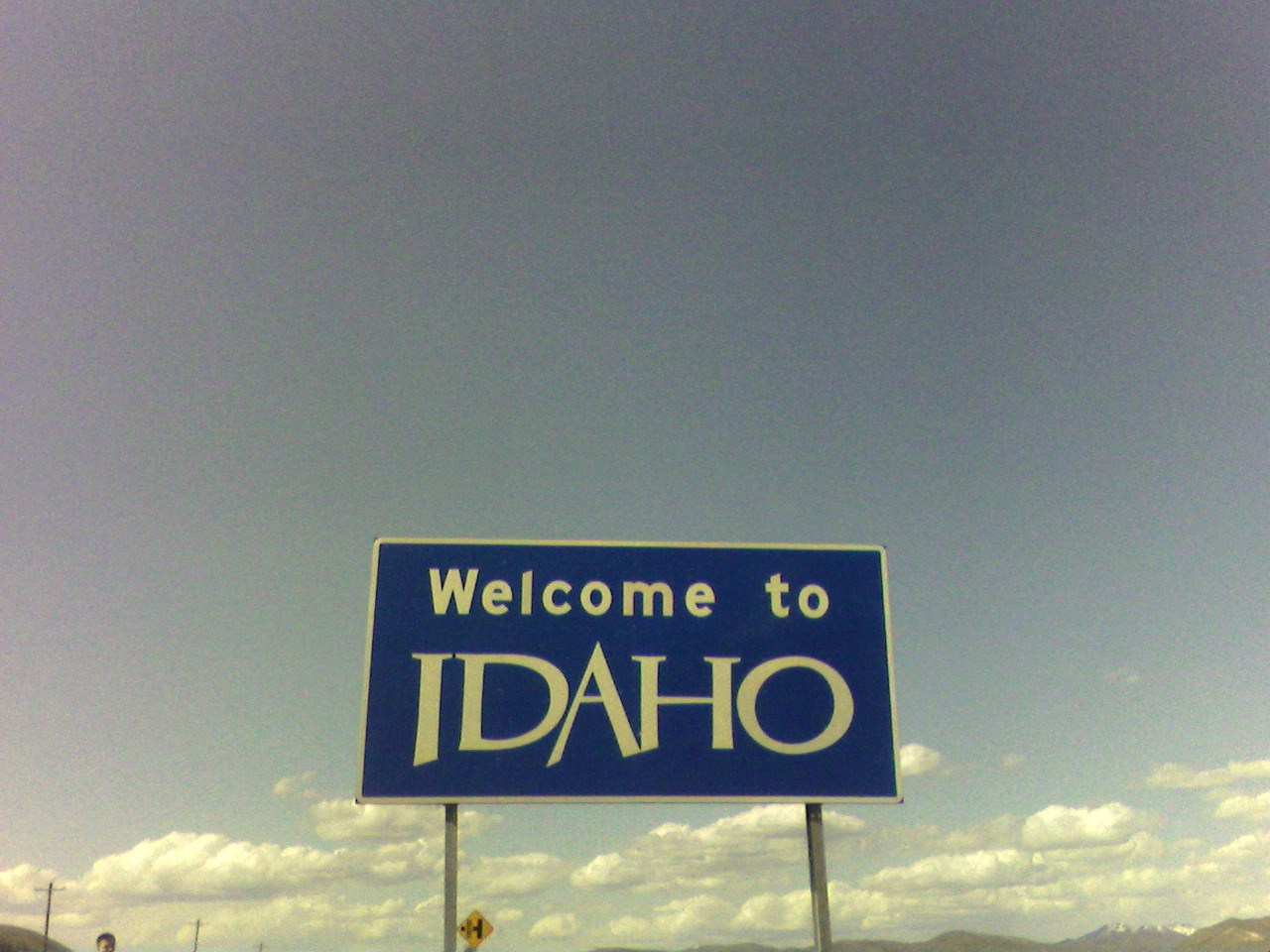 Idaho welcome sign near Franklin, ID 2008.